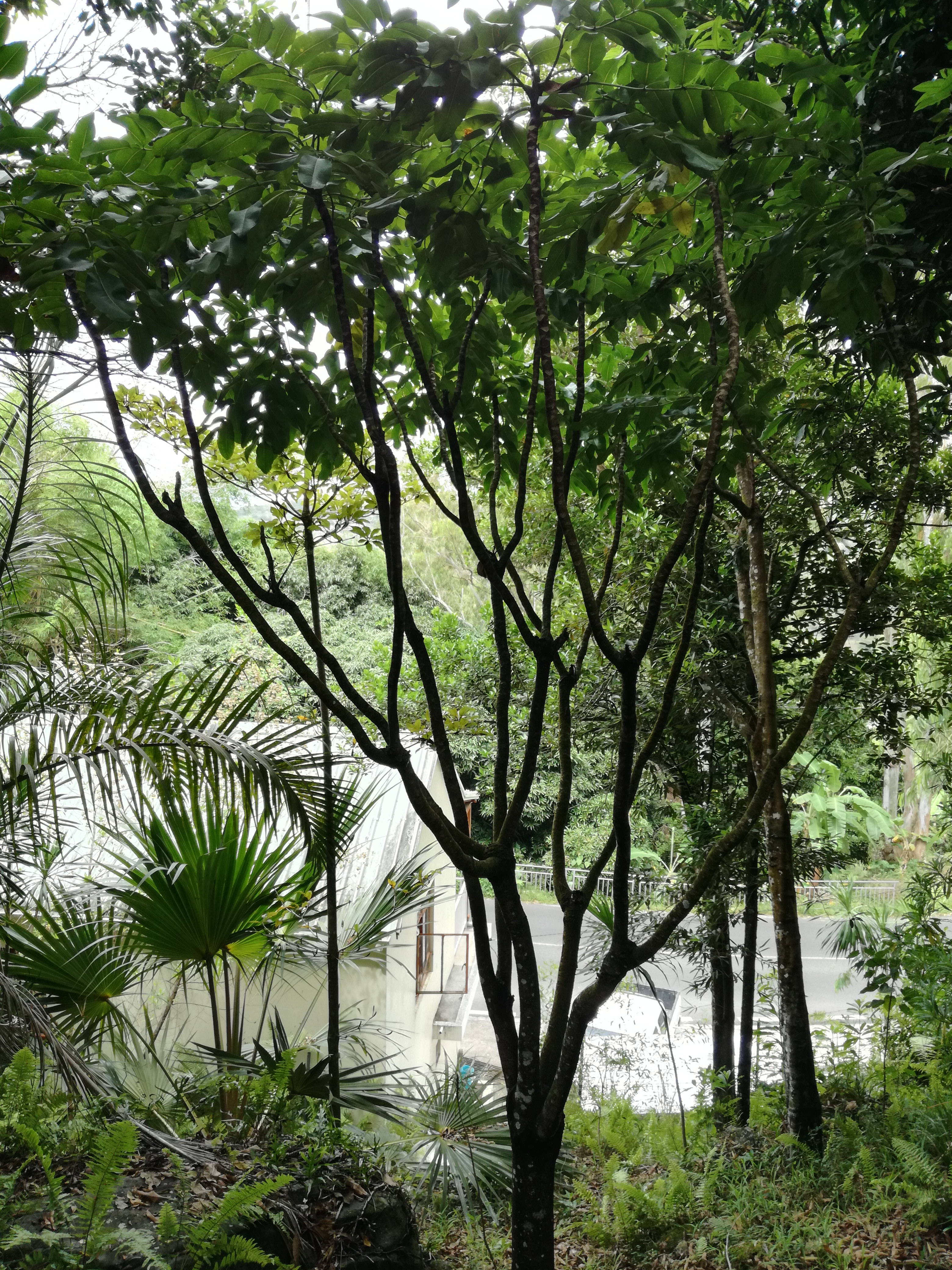 Polyscias rodriguesiana tree - Grande Montagne